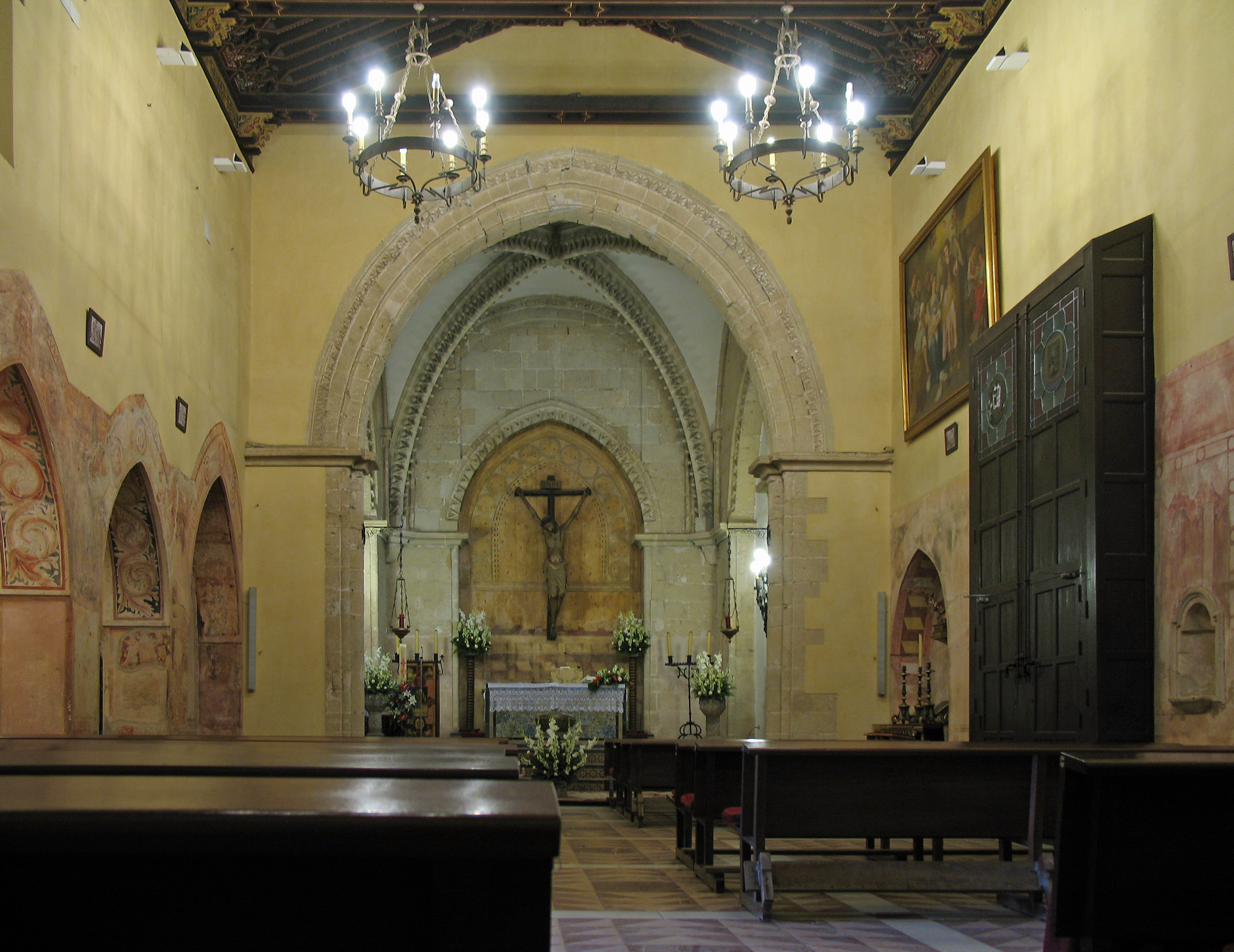 Palos de la Frontera (Huelva, Spain): monastery of Santa María de la Rábida - interior of the church